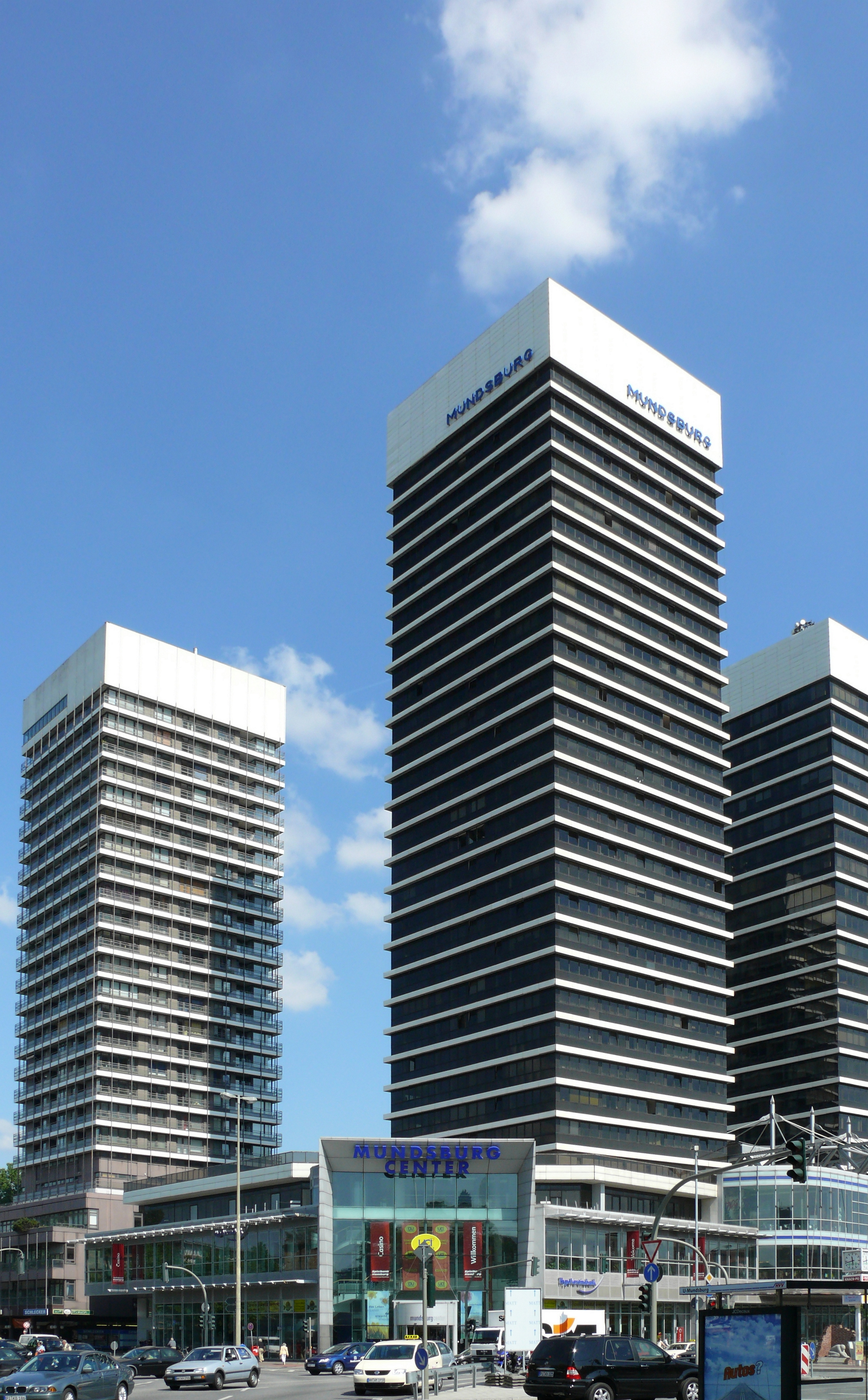 Hamburg, Mundsburg Towers